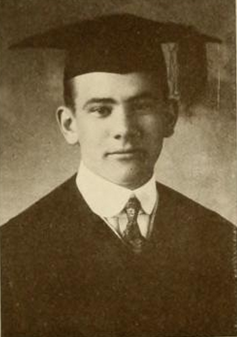 B. D. Peachy, W&M